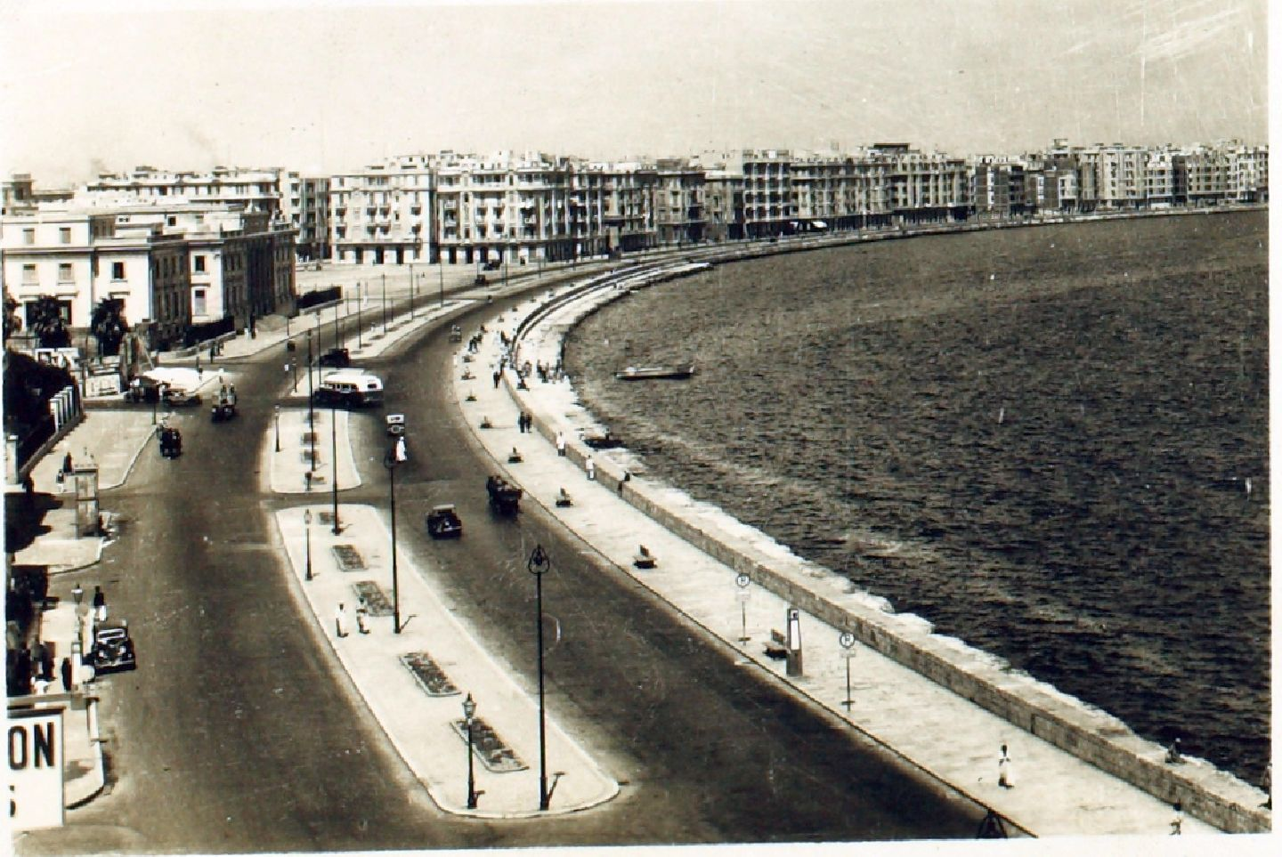 Alexandria Egypt - Apr 1944.